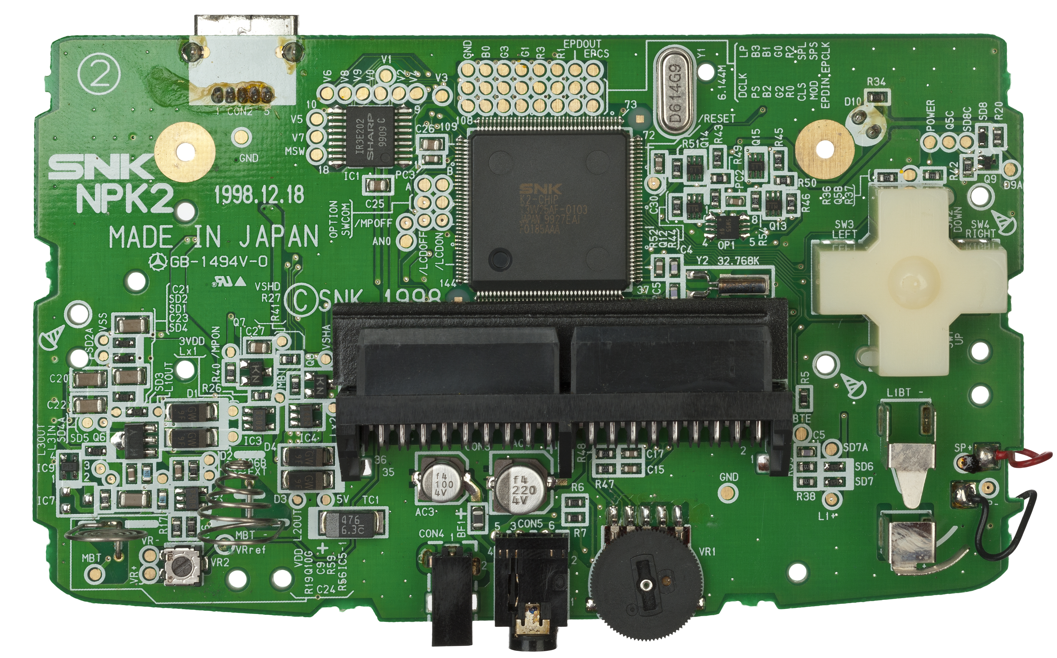 The motherboard from a Neo Geo Pocket Color, a handheld gaming console released in 1999 by SNK. The board is listed as SNK NPK2, GB-1494V-0 and has a manufacture date of 1998-12-18. The CPU is listed as SNK K2-CHIP T3W25AF-0103 JAPAN 9927EAI F0185AAA.